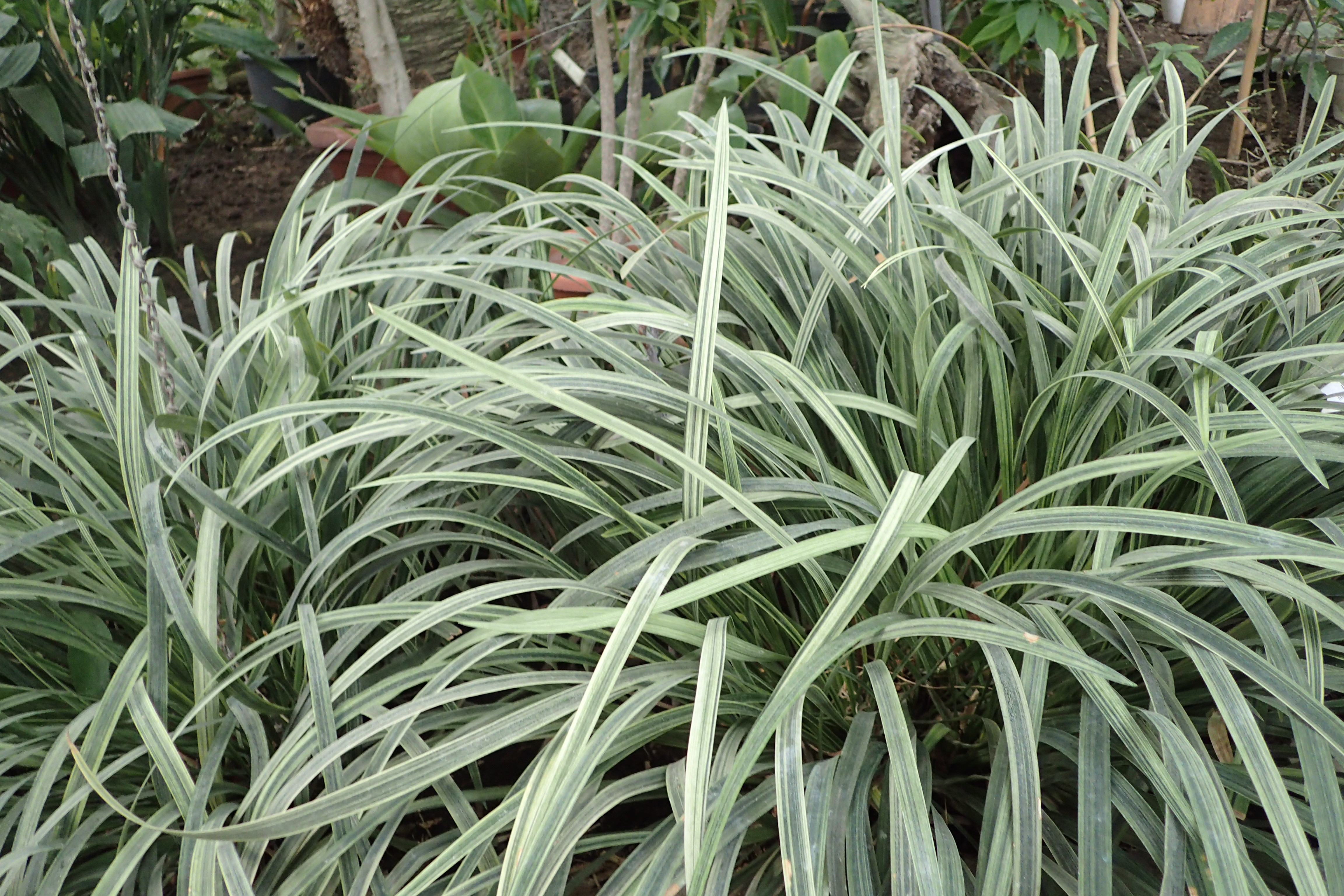 Ophiopogon jaburan in Botanical Garden of the University of Debrecen